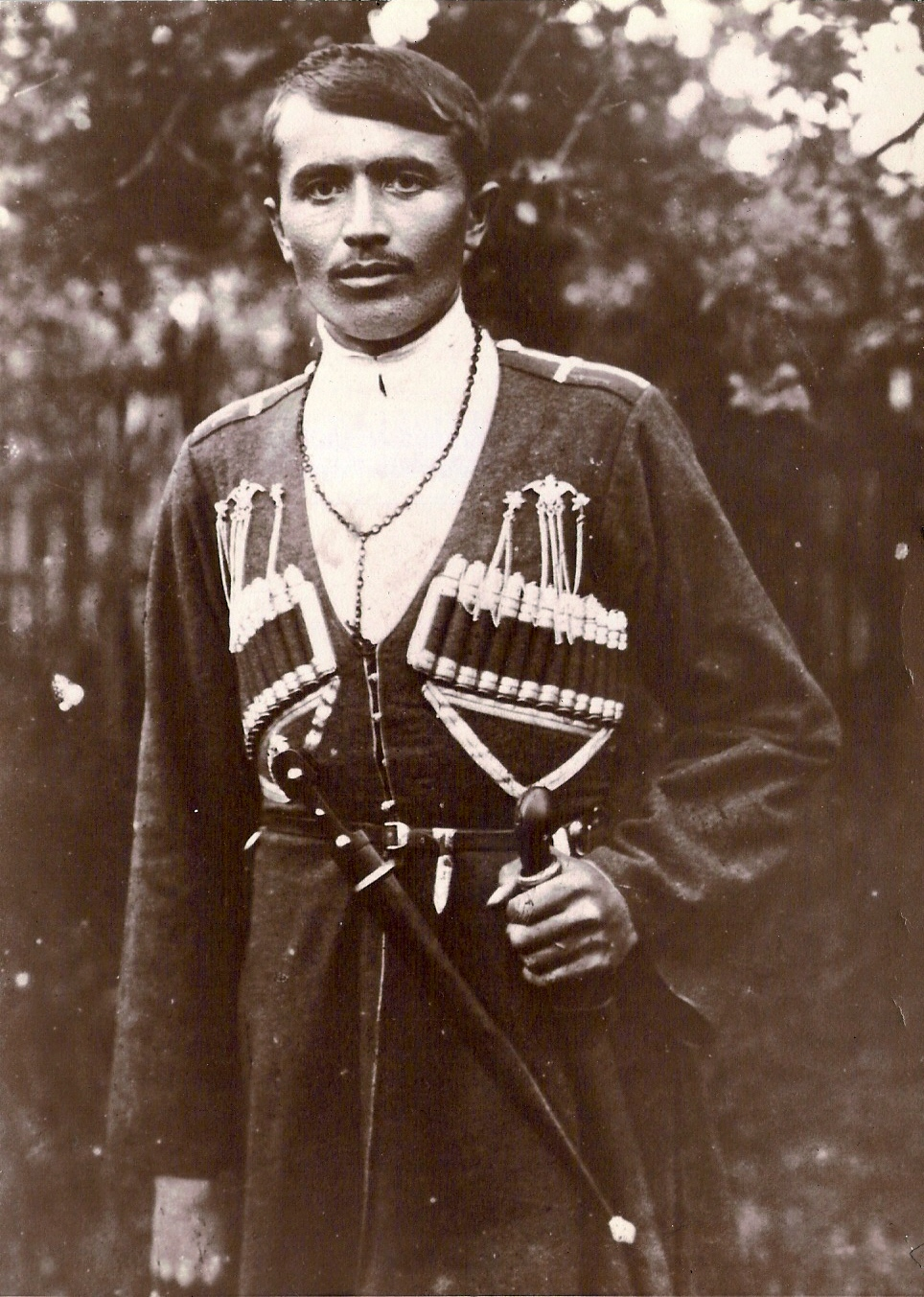 Portrait of a Kuban Cossack